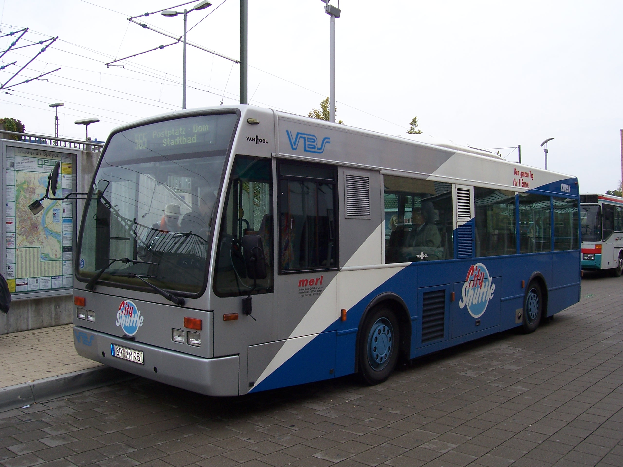 Van Hool bus in Speyer, Germany My own photo from 02-oct-2005